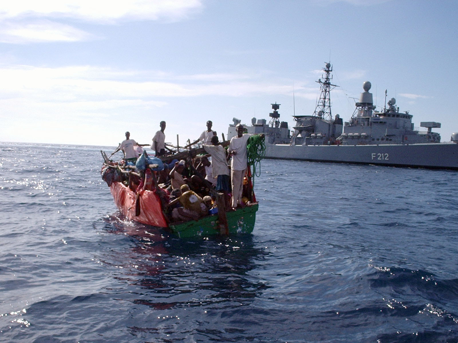 A small vessel underway 25 miles off the coast of Somalia just prior to capsizing, into the Gulf of Aden. Eighty-nine people survived the incident, with 5 pronounced dead on the scene. U.S. Navy guided missile cruiser USS Normandy (CG 60), coastal patrol ship USS Typhoon (PC 5), coastal patrol ship USS Firebolt (PC 10) and German frigate FGS Karlsruhe (F 212) are assisting in the rescue effort.